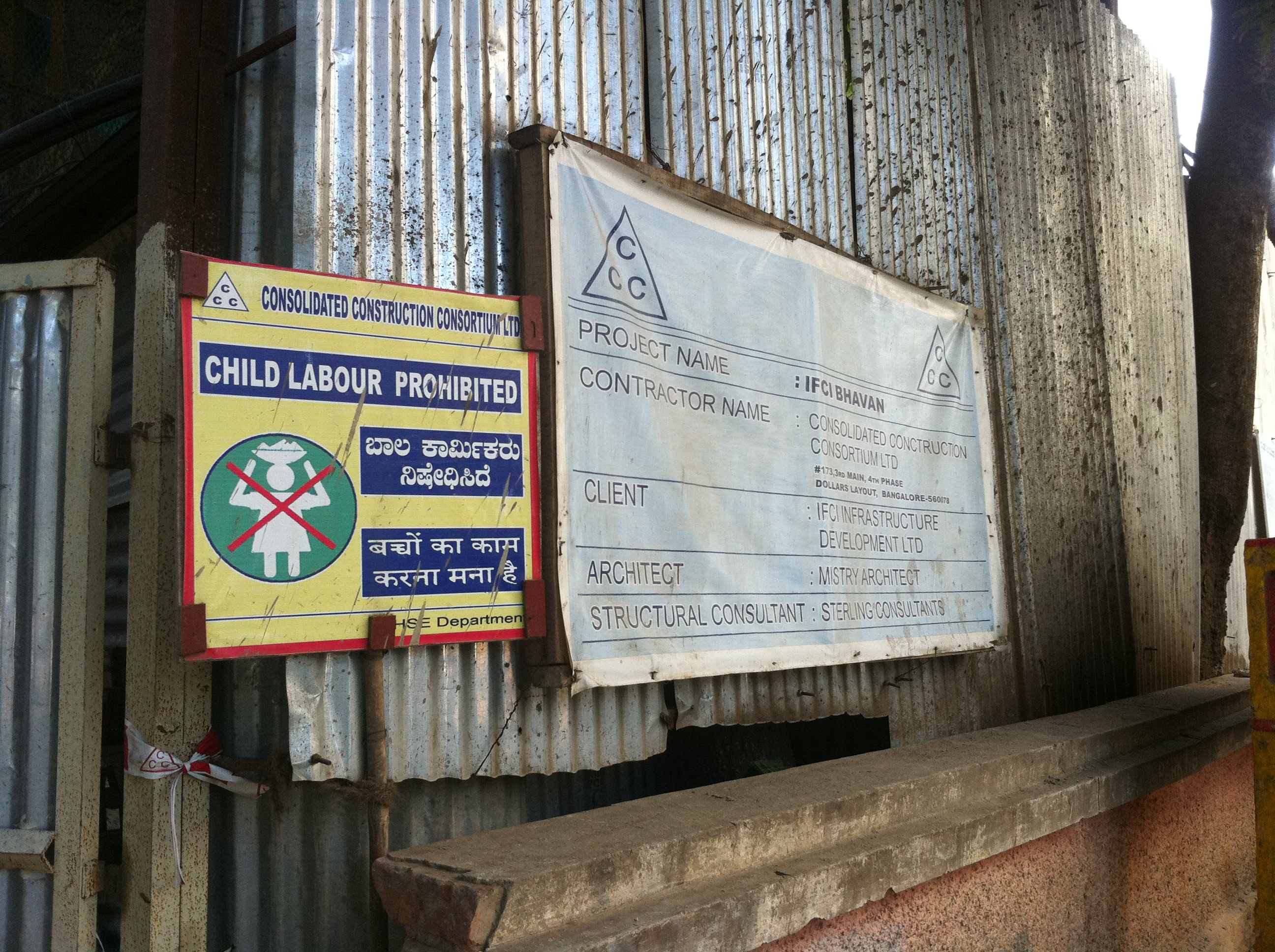 Image of 2 signs at a construction site in Bangalore India